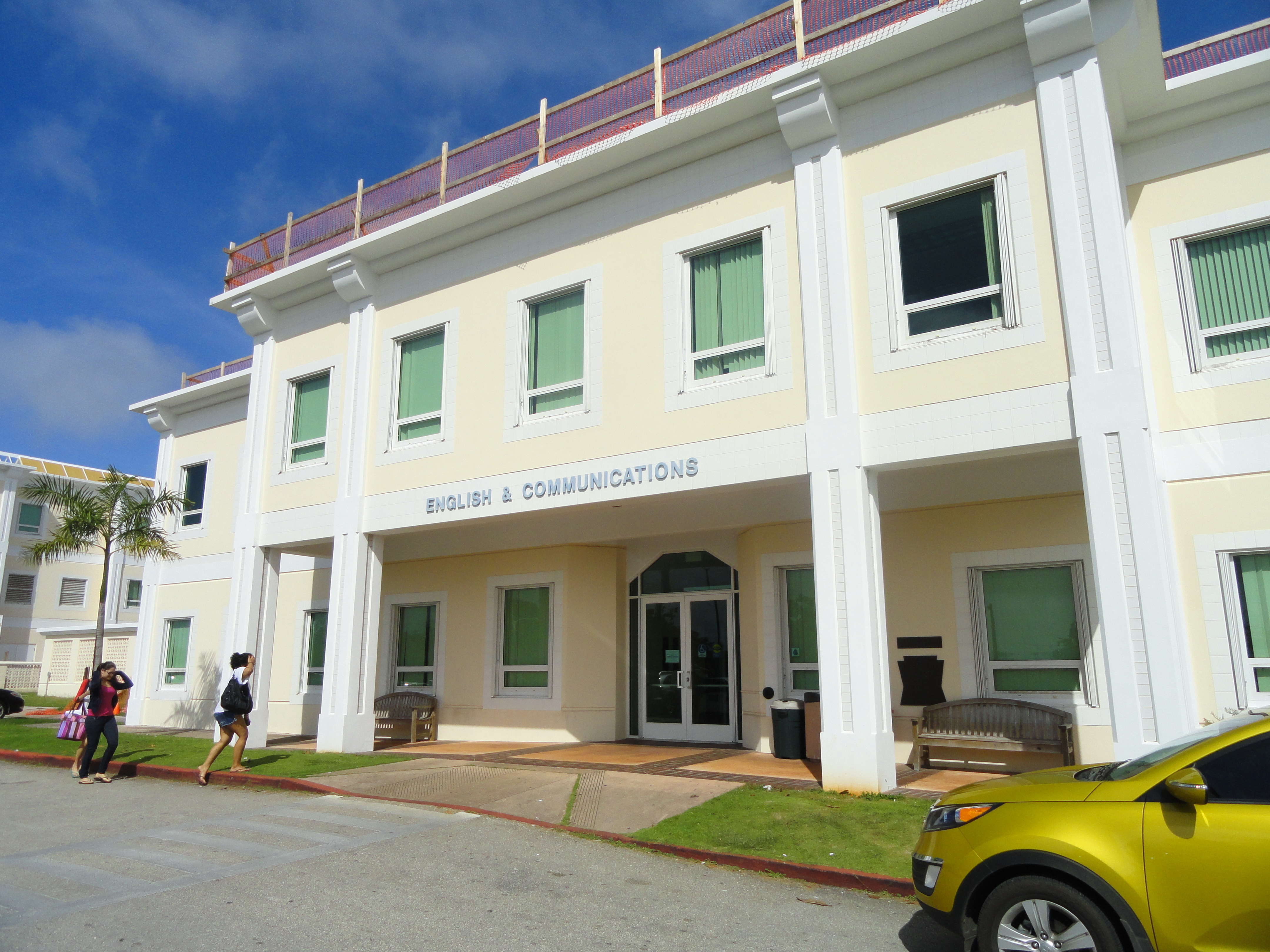 University of Guam - Mangilao, Guam, USA.